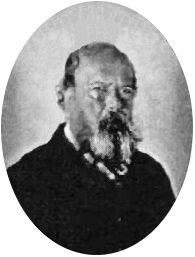 George Hueu Davis (January 10, 1800 - December 31, 1873). Bernice P. Bishop Museum (Archival location: CP 74405).